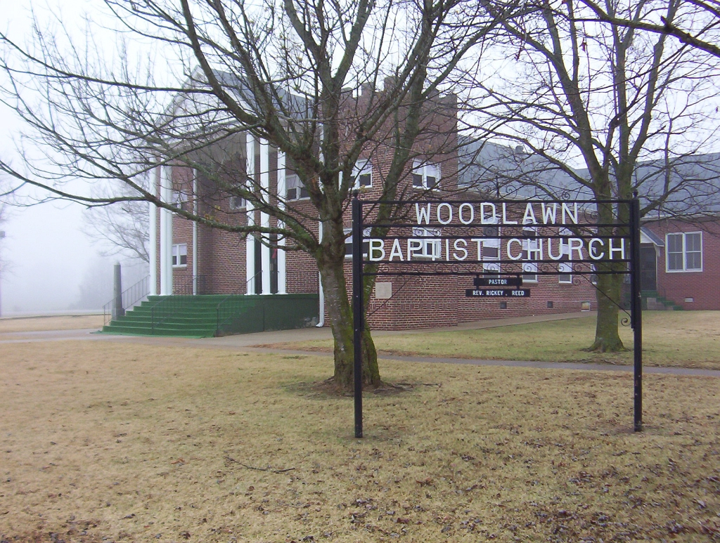 Woodlawn Baptist Church in Nutbush, TN (Dec. 2007) Photo made by: Thomas R Machnitzki I made the photo myself, feel free to use it.